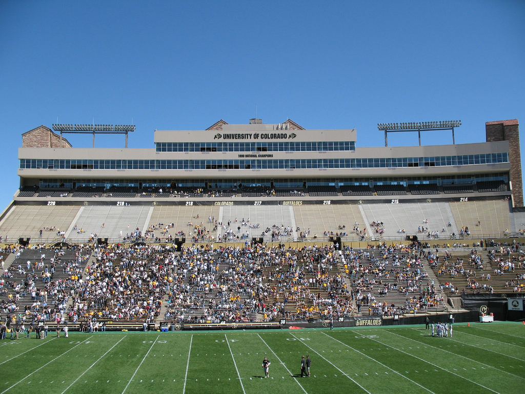 Folsom Field club and suite levels built before the 2004 season.